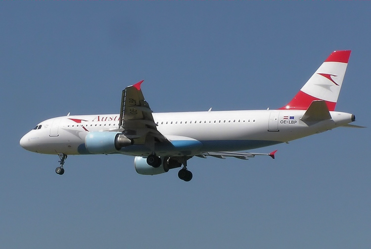 Austrian Airlines Airbus A320-200 (OE-LBP) landing at London (Heathrow) Airport in August 2004.